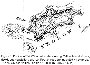 Yellow Island, San Juan Islands, Washington, USA. This image is from a document prepared by the U.S. Coast and Geodetic Survey in 1895.